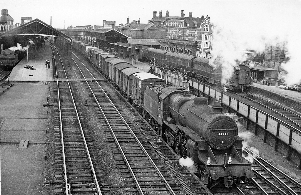 Stafford Station, with Up fast freight train. View NW, towards Crewe etc.; ex-London & North Western West Coast Main Line. The Up Class C freight is running through on the Fast lines, headed by Hughes/Fowler 5P4F 2-6-0 No. 42931.